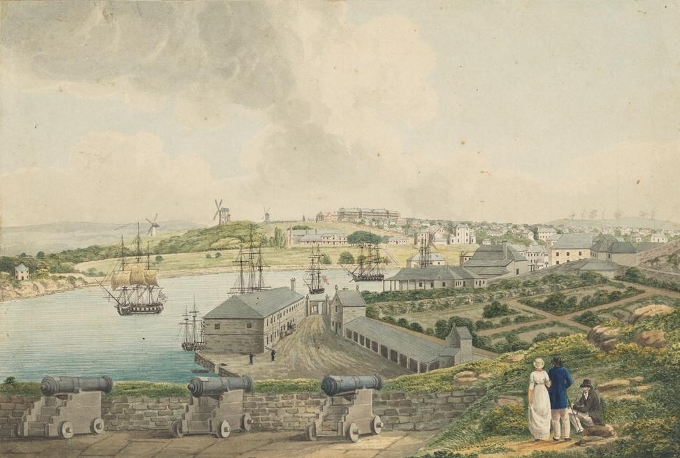 Sydney Cove from the fort at Dawes Point, from original watercolour by Joseph Lycett, 1817-1818, held by the State Library of New South Wales